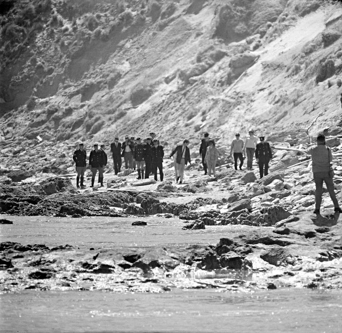 Searchers combing Cheviot Beach after Harold Holt's disappearance